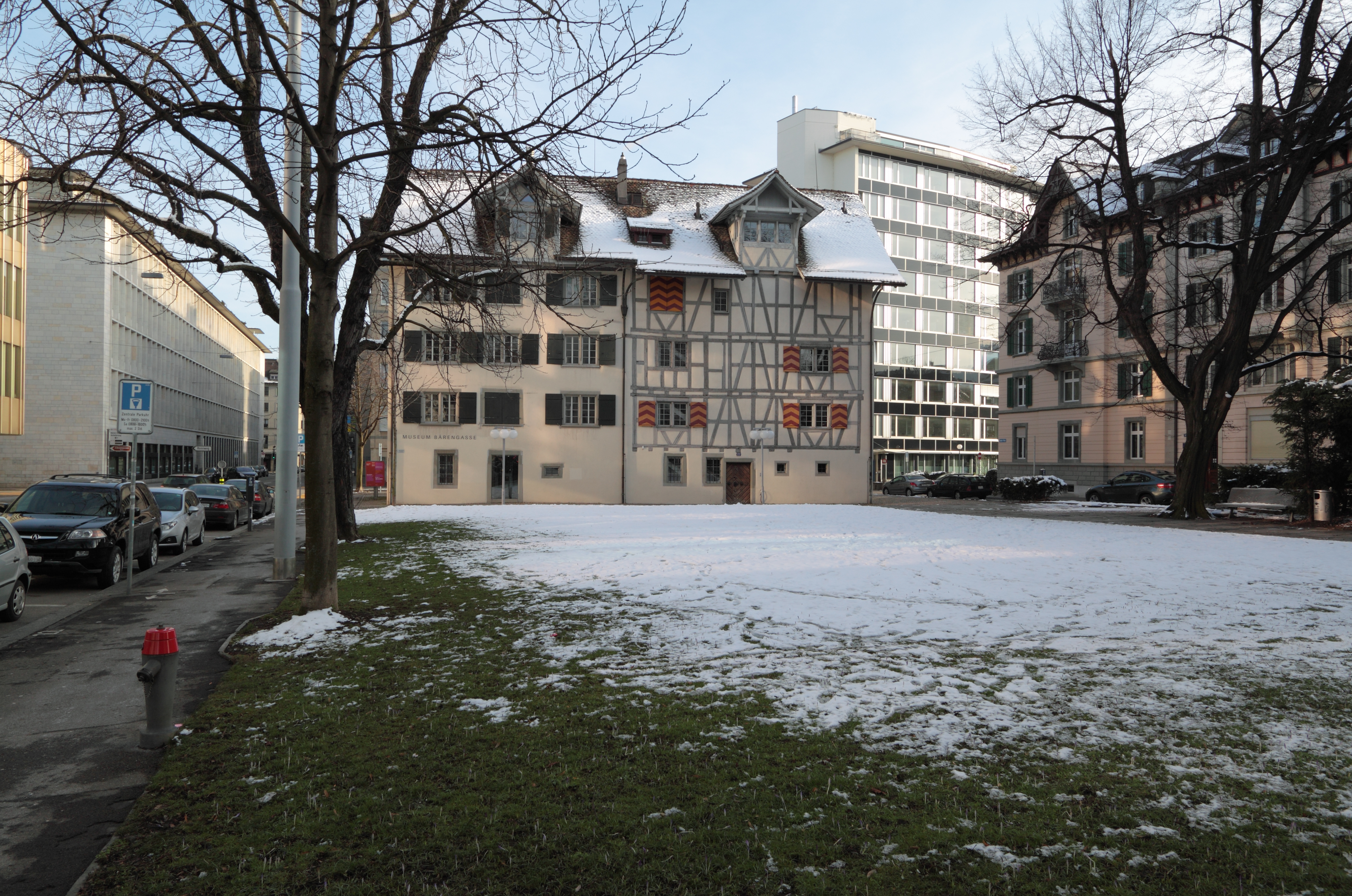 Museum Bärengasse in Zurich